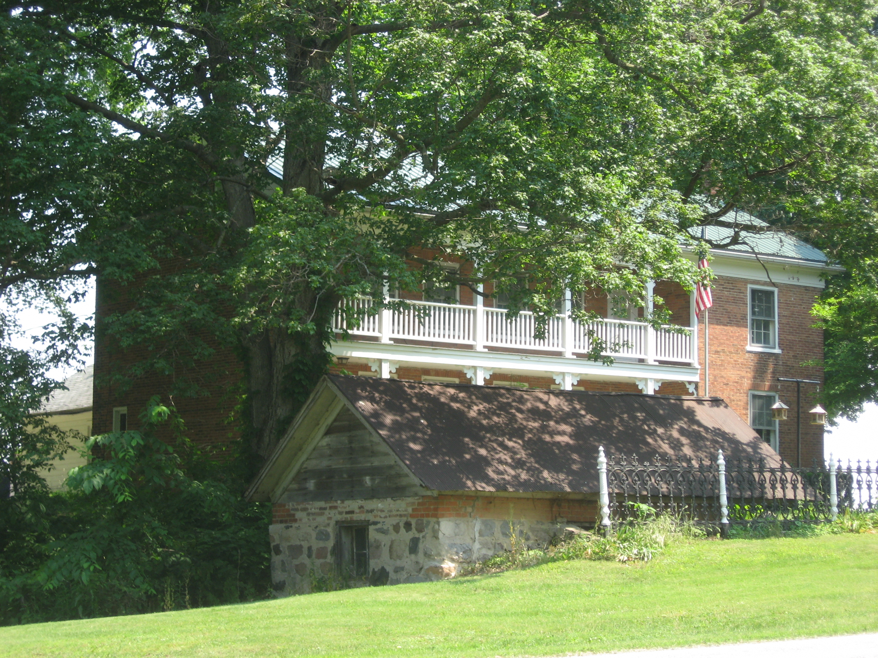 Farmhouse and spring house at the Mears Family Farmstead, located at 6405 W. 300N east of Delphi in Deer Creek Township, Carroll County, Indiana, United States. Built in 1852 and 1880 respectively, these two buildings and the remaining farm structures are part of the Deer Creek Valley Rural Historic District, a historic district that is listed on the National Register of Historic Places.